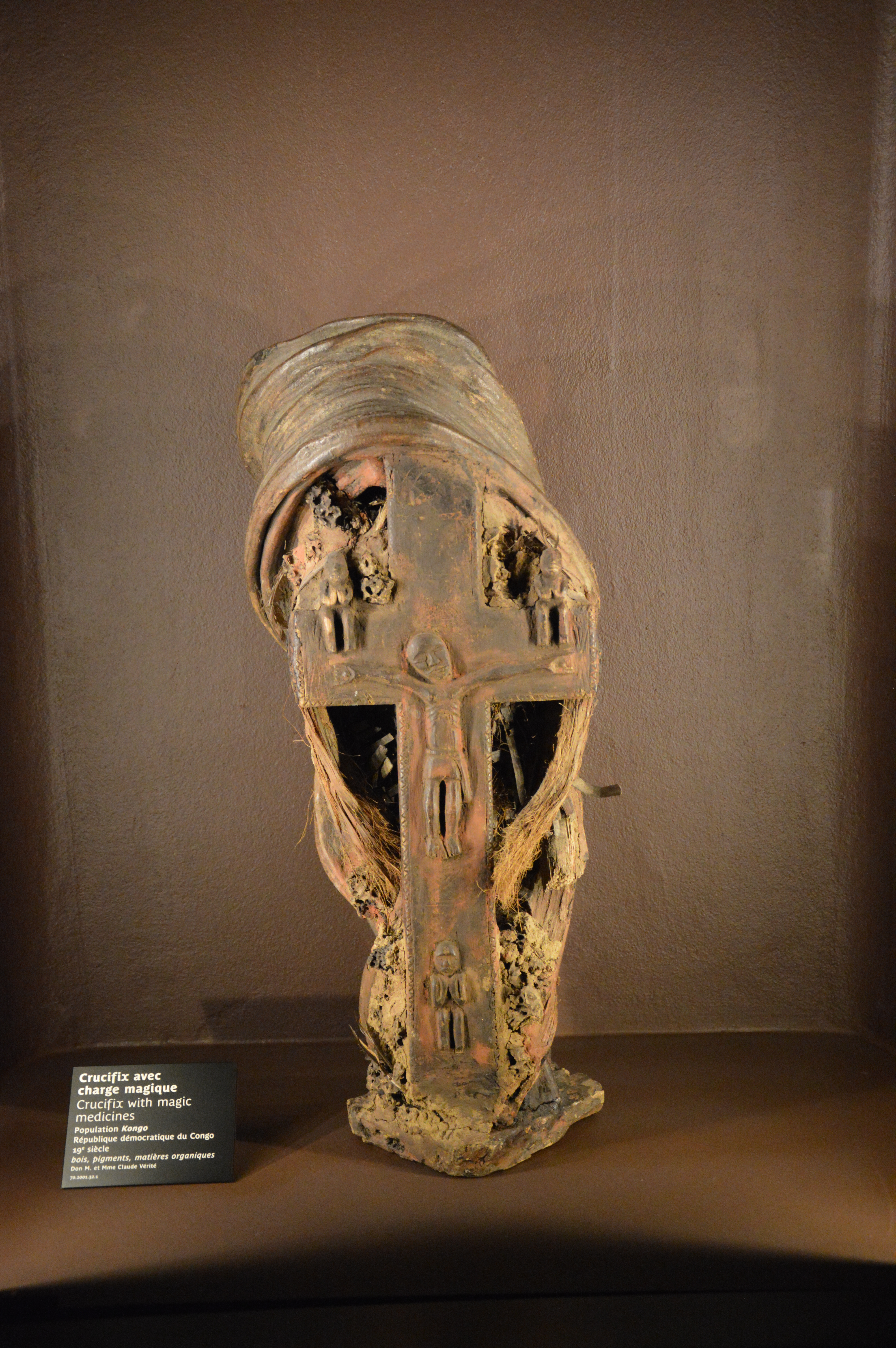 Crucifix with magic medicines. Kongo people. Congo.